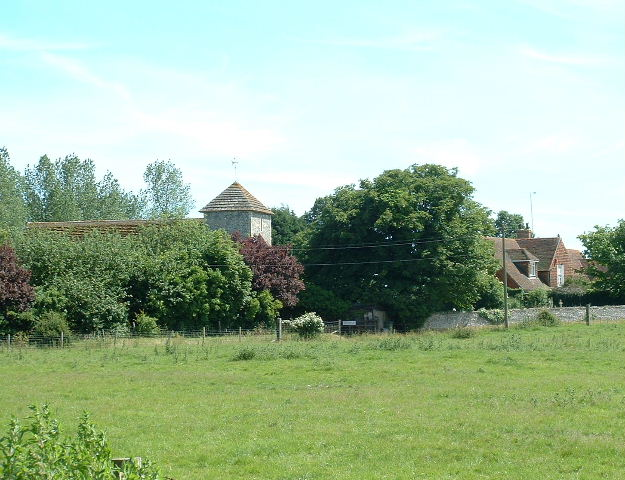 Botolphs Church & Rectory. Near the middle of this square.